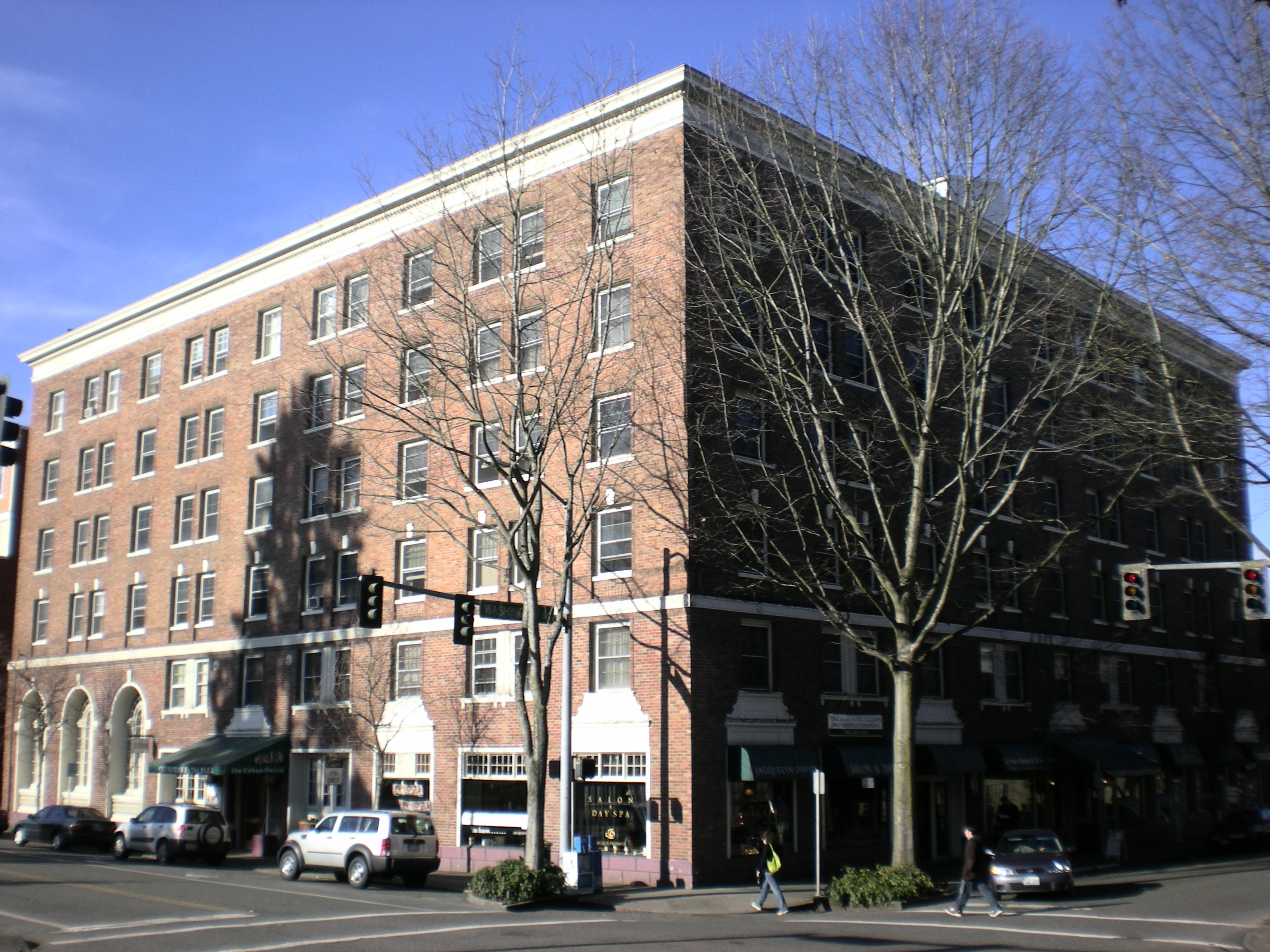 The Hotel Olympian in Olympia, Washington. Although the building was apparently nominated in 1987 for the National Register of Historic Places (reference number 87002647) it was apparently not listed based on "owner objection". Date